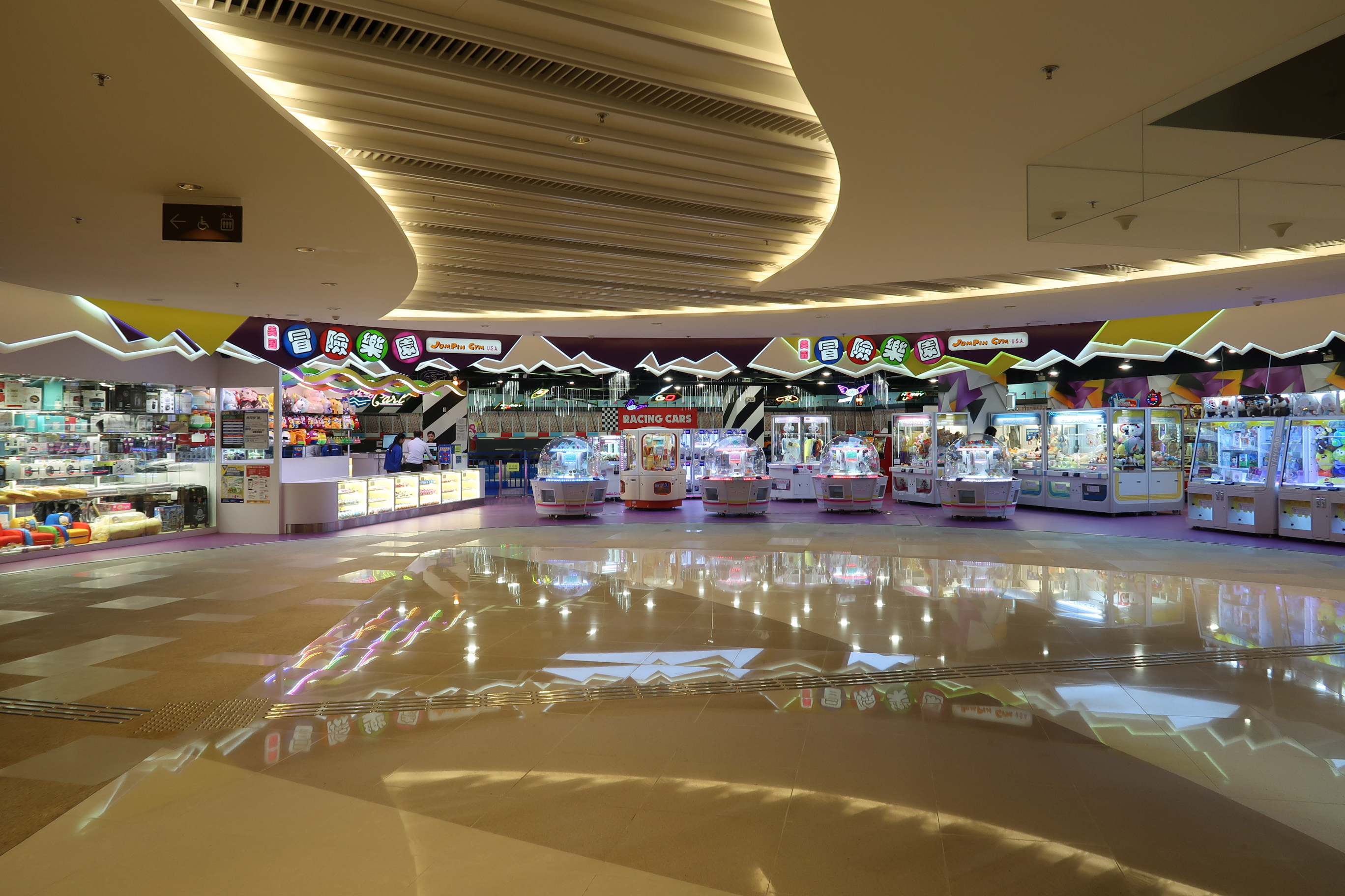 Jumpin Gym U.S.A in The Papillons